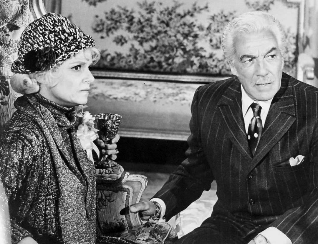 Photo of Jane Connell as Hepzibah, high priestess of witches and Cesar Romero as a mortal she's romantically attracted to, from the television program Bewitched.